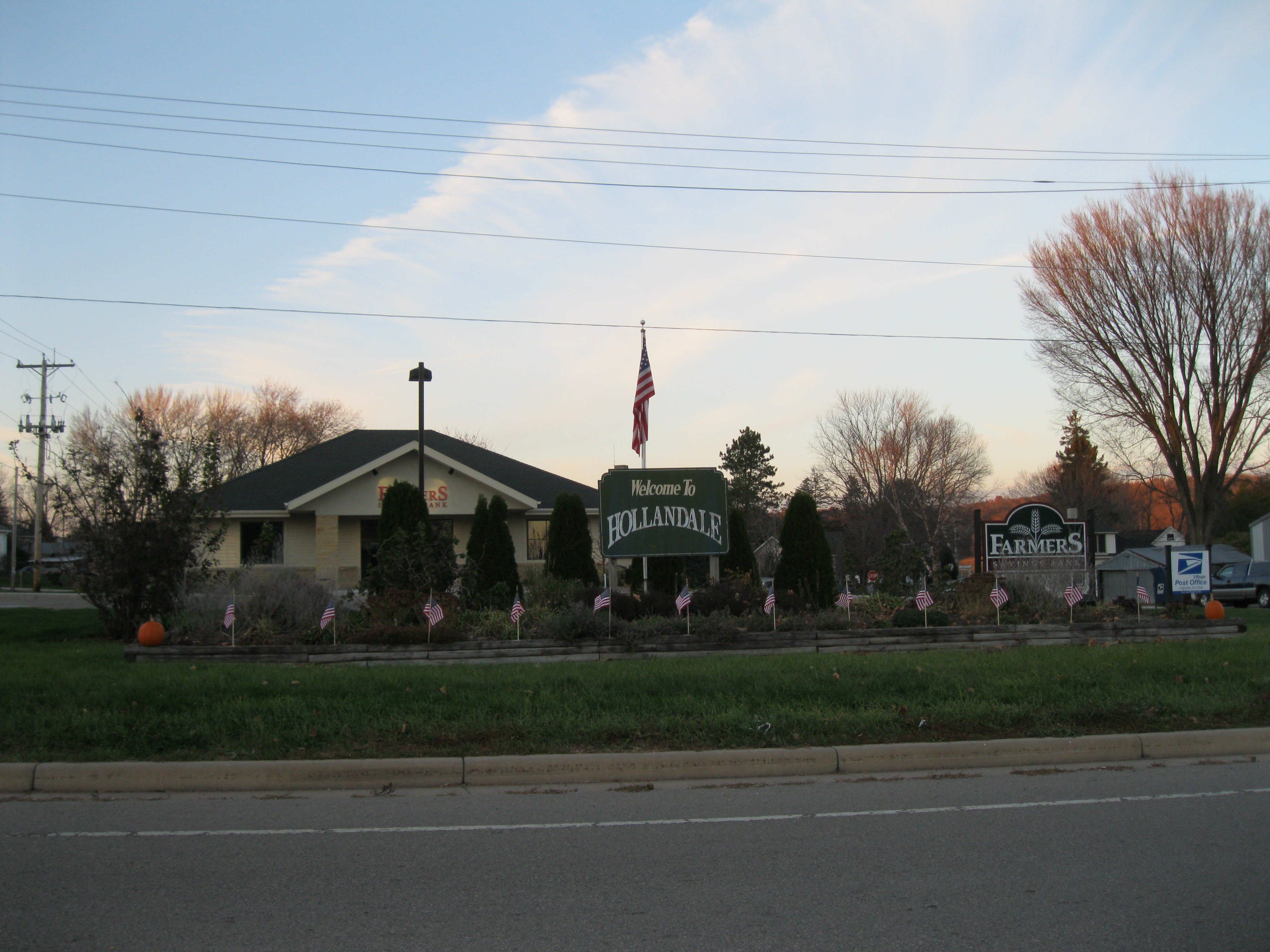 Bank in Hollandale, Wisconsin, with a "Welcome To Hollandale" sign in front.